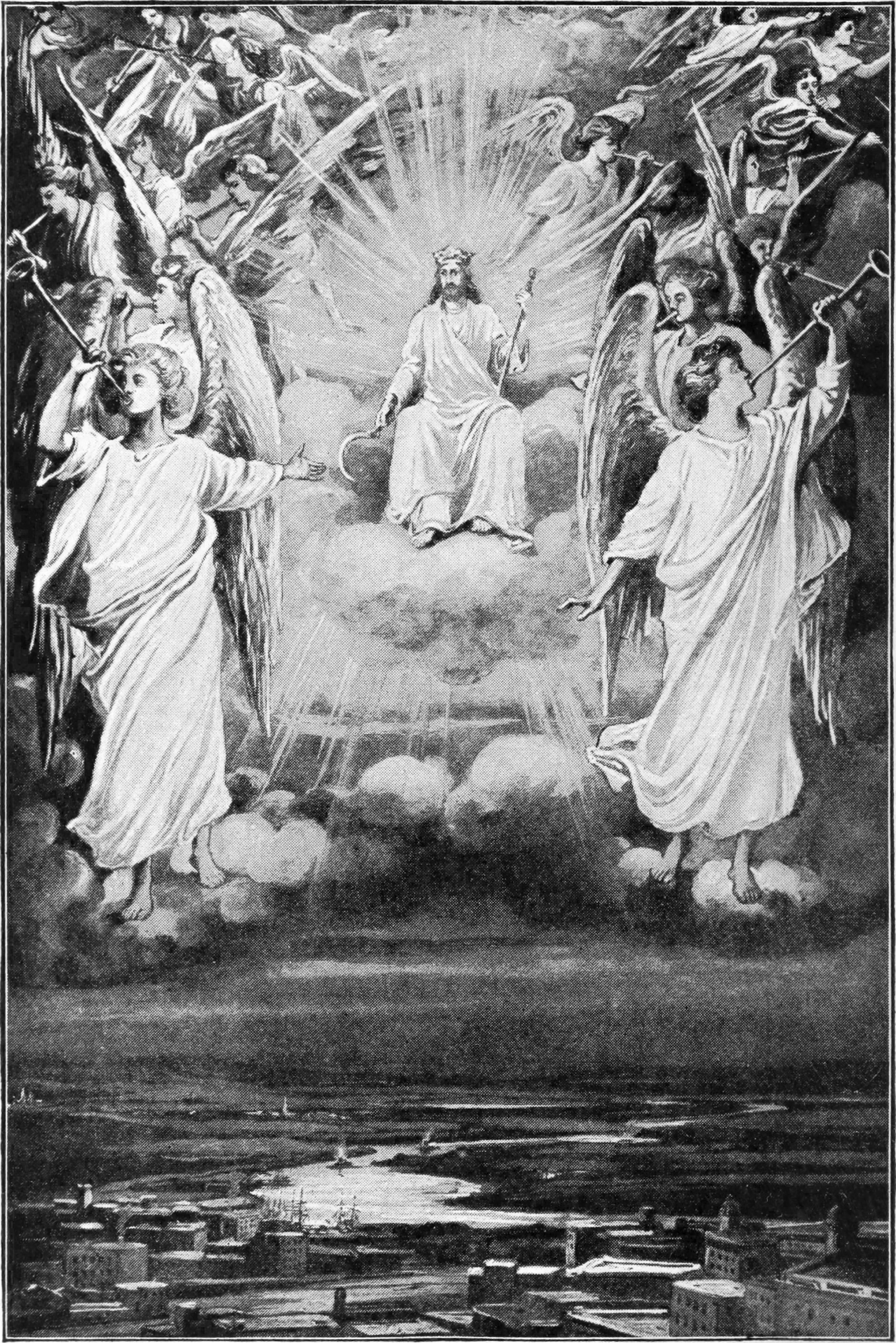 "Christ coming in glory", illustration on page 58 of the book "Our day in the light of prophecy and providence" (1921).